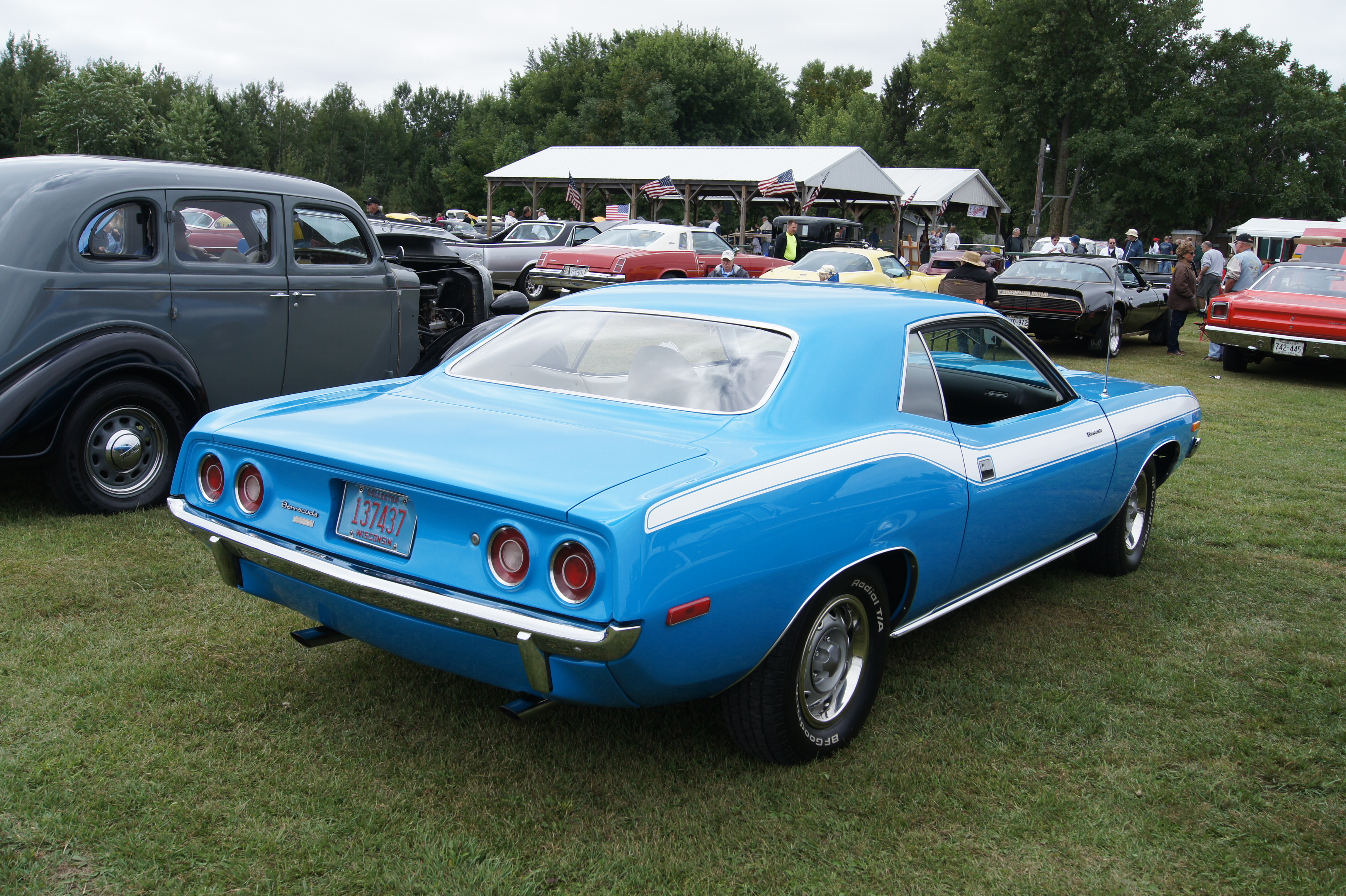 North Star Chapter Studebaker Drivers Club 13th Annual Labor Day Car Show September 2, 2013 Blacksmith Lounge Hugo, MN More Car Pictures